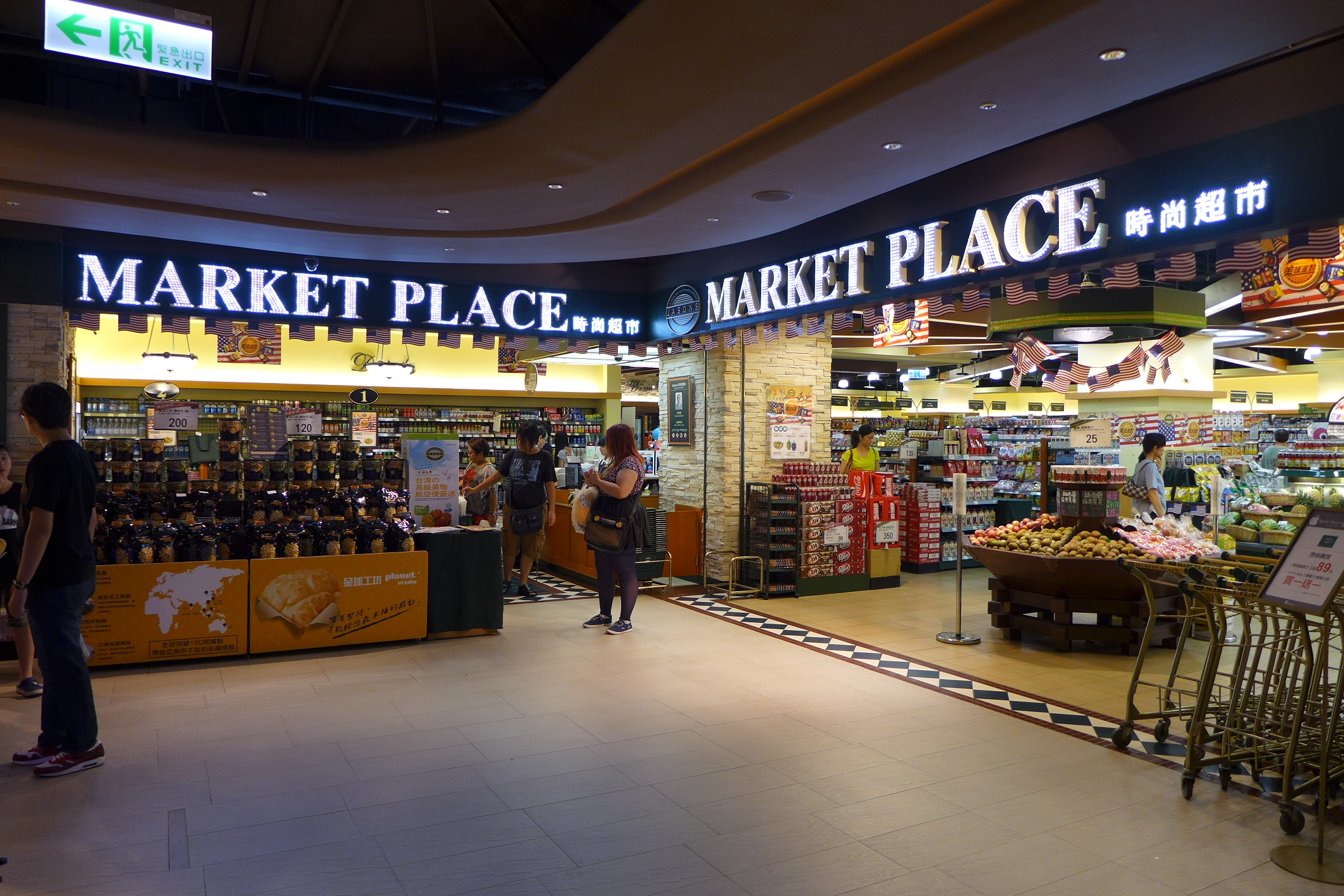 Market Place by Jasons in Taipei Q square